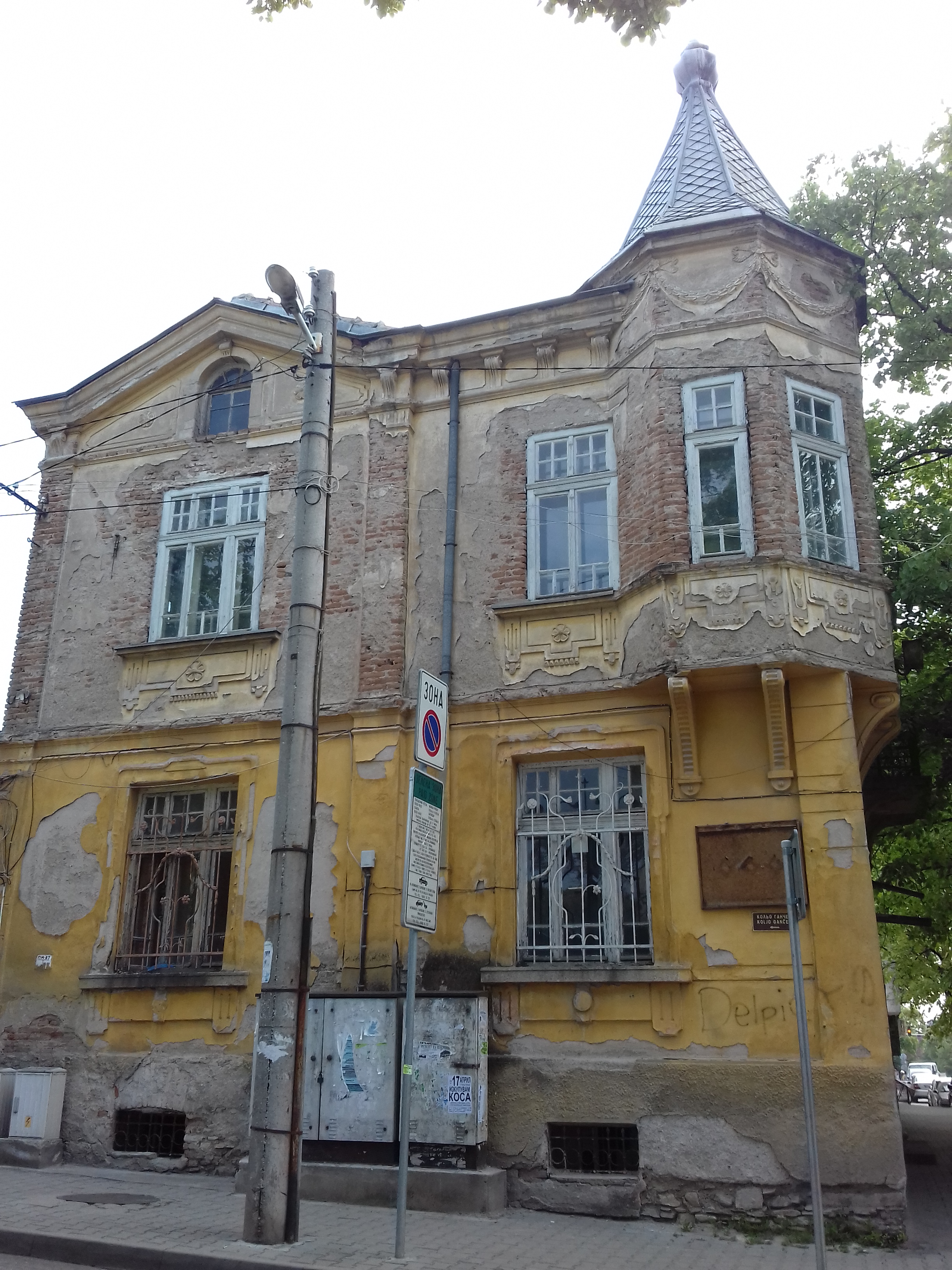 Stefan Uzunov's House, Stara Zagora, Bulgaria.